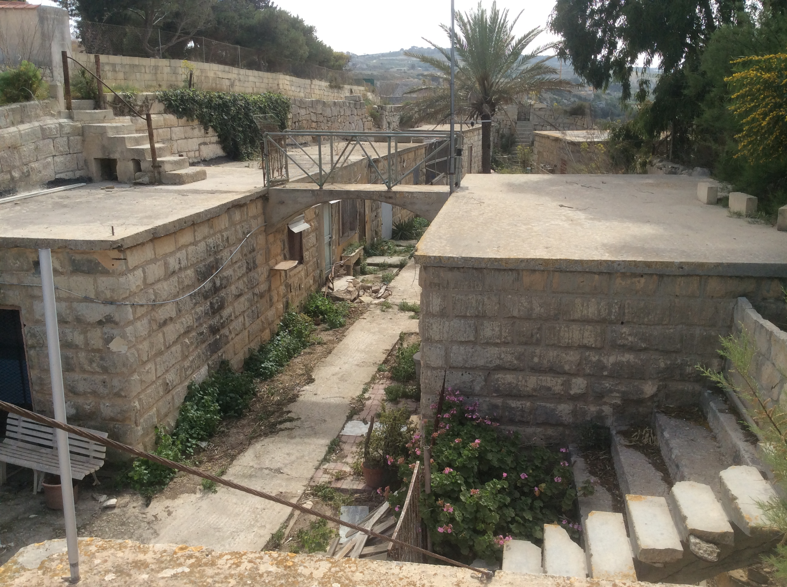 Tat-Targa Battery